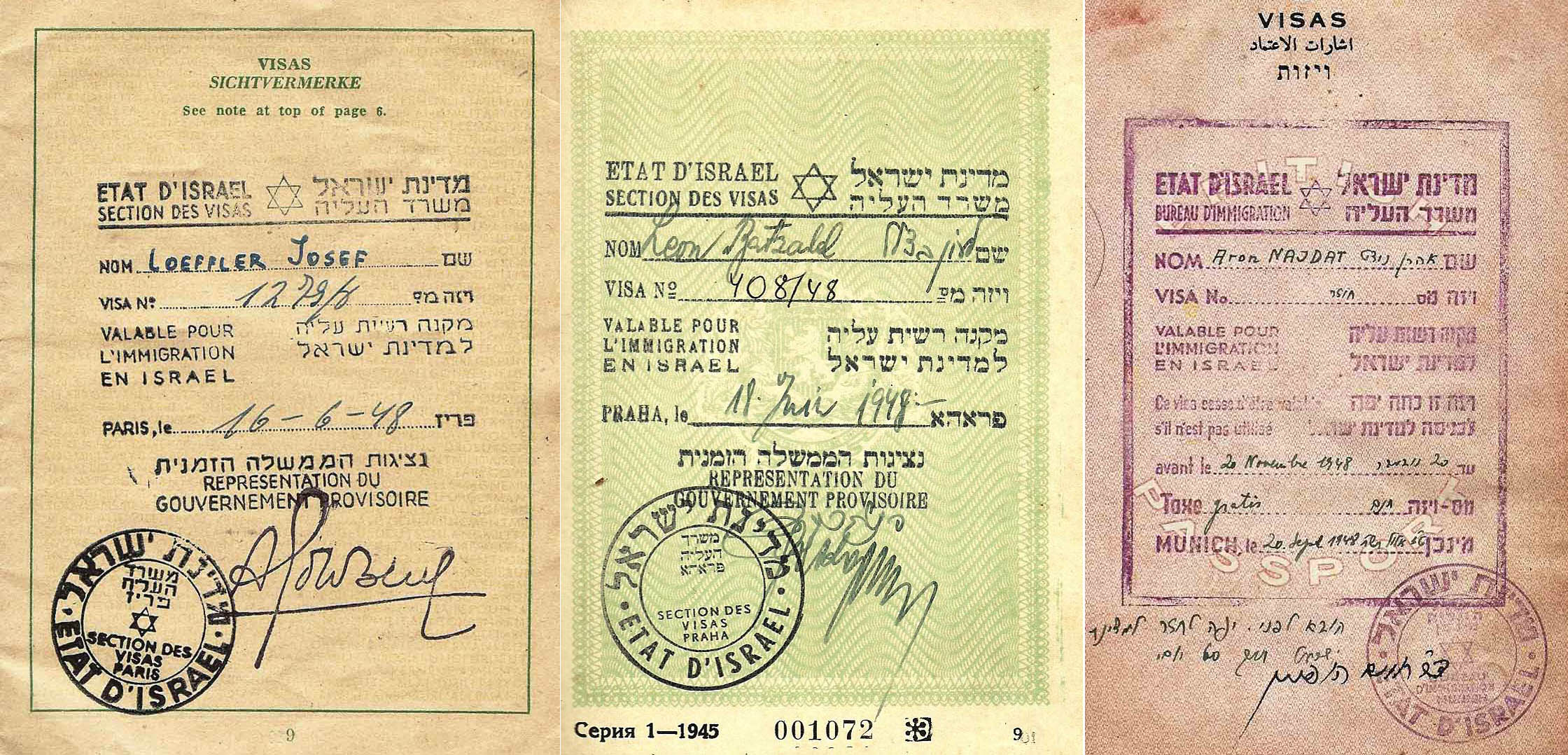 Israel's first immigrant visa papers, 1948